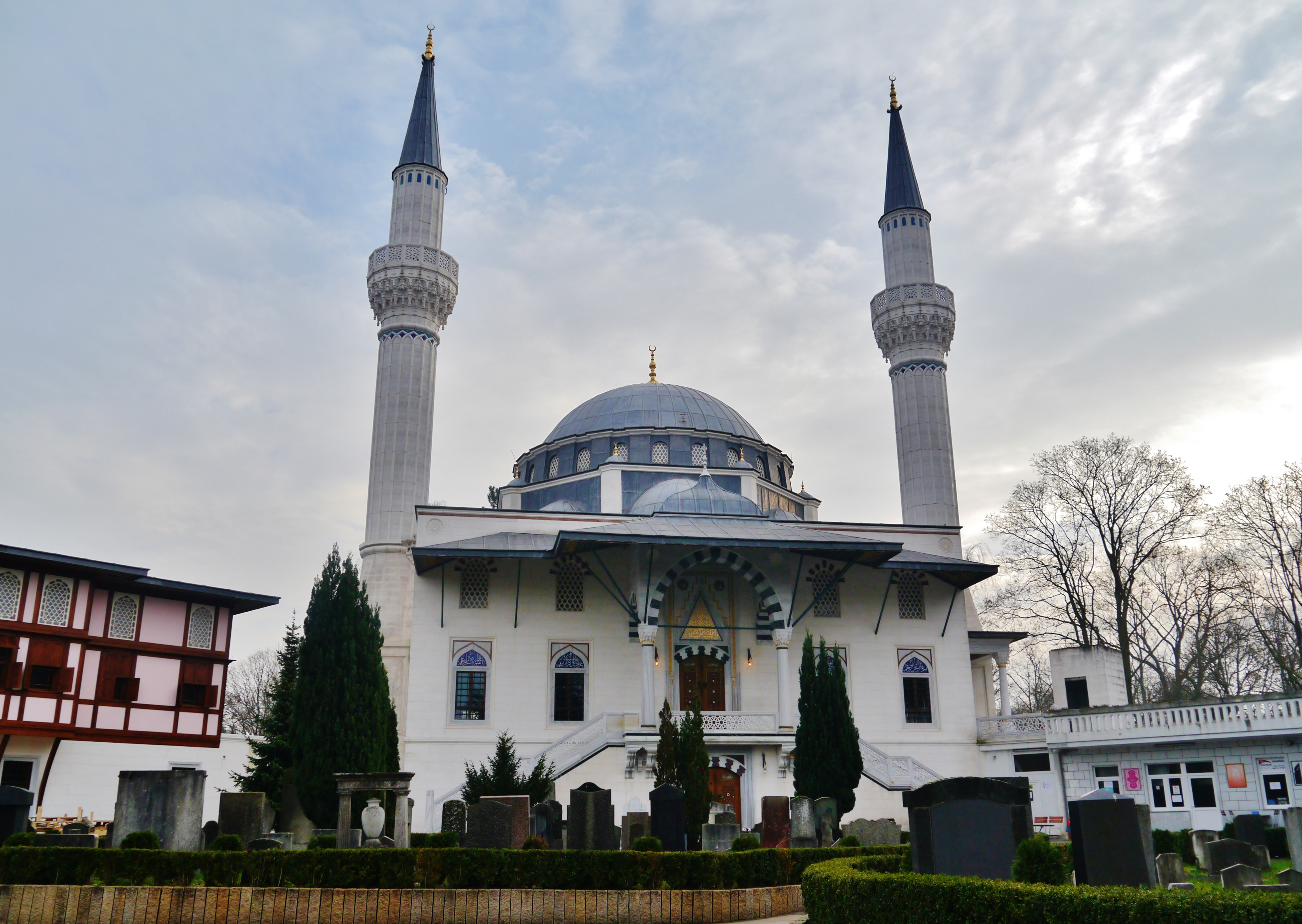 Sehitlik Mosque, Berlin, Germany